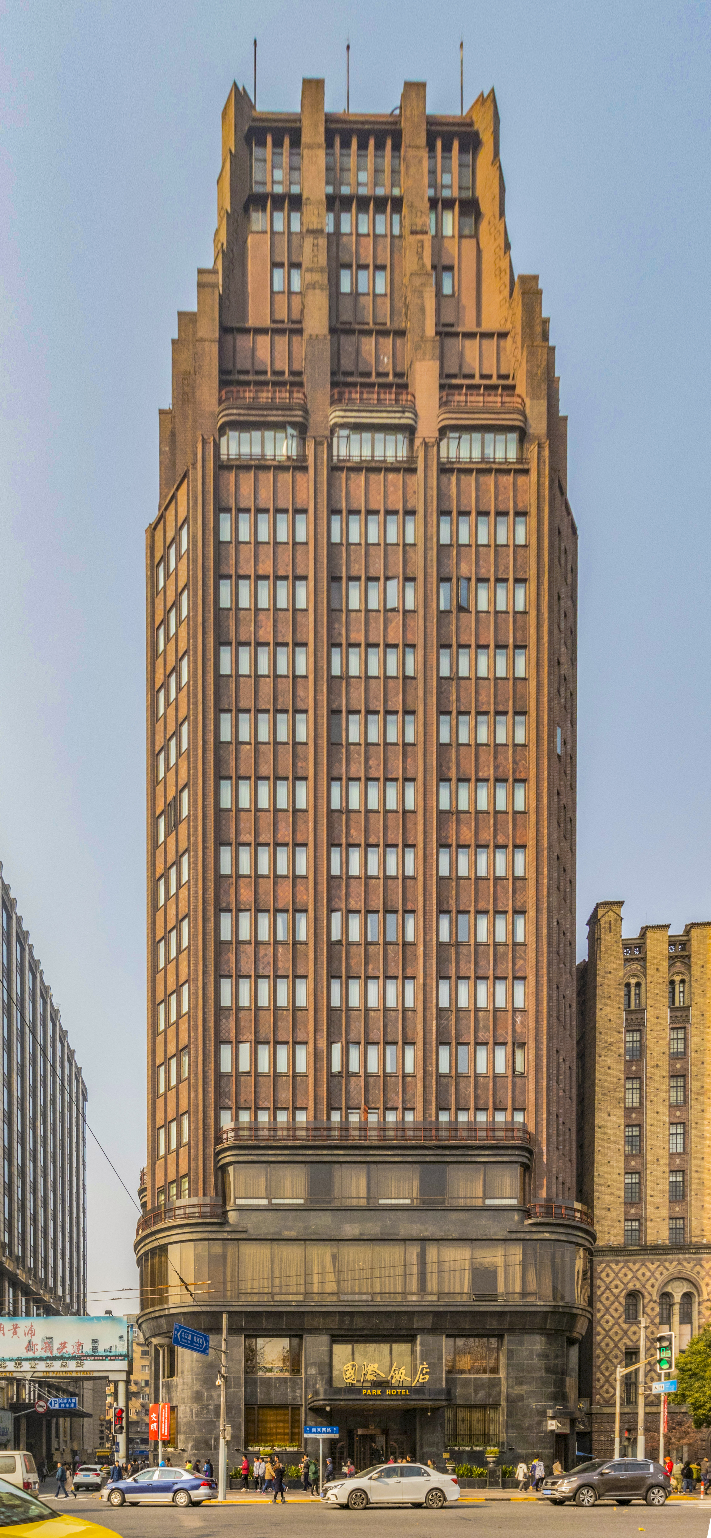 Park Hotel, 170 West Nanjing Road, Shanghai 中文（中国大陆）: 上海国际饭店